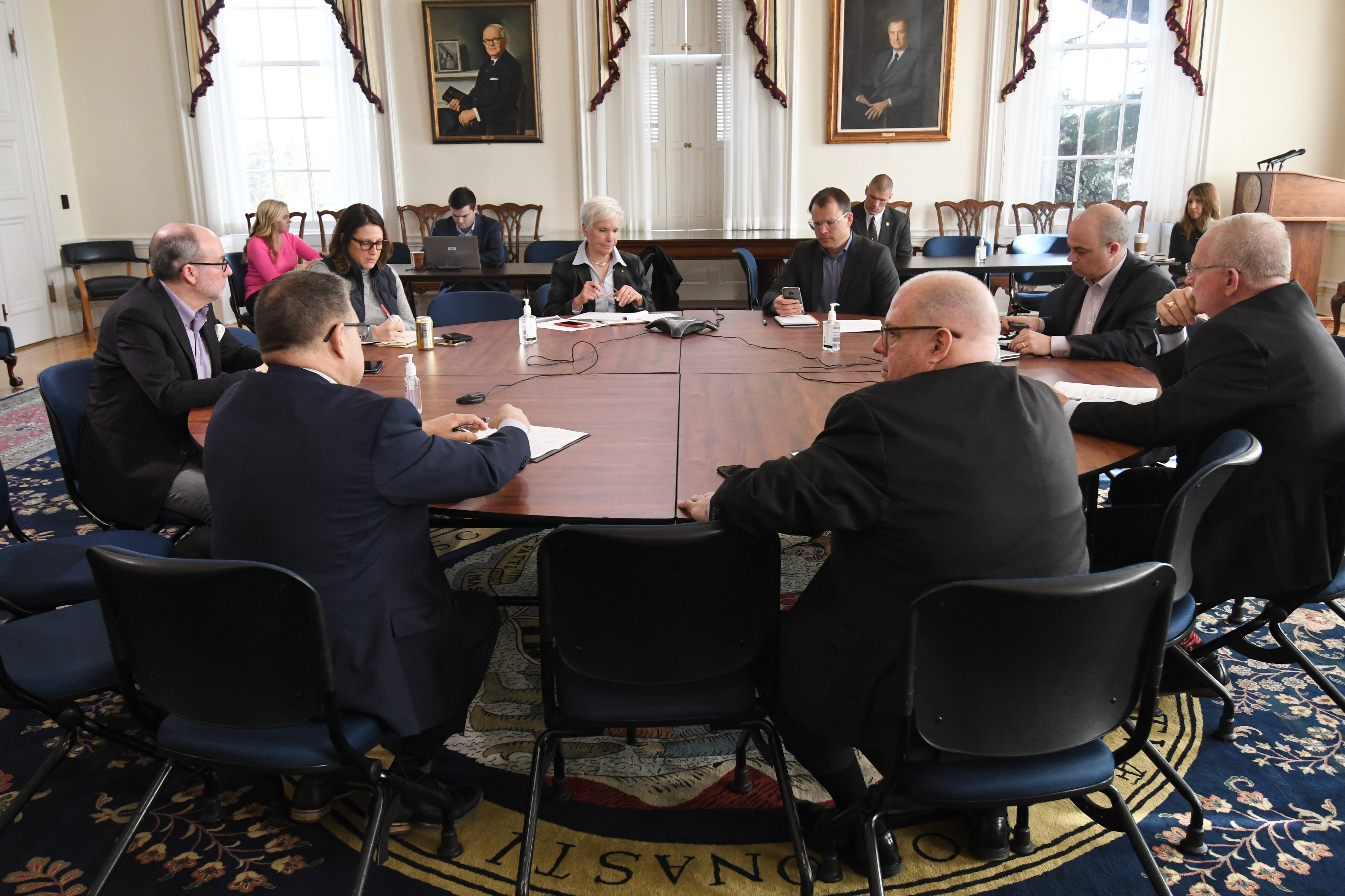 Governor Hogan Updates his Cabinet on the Coronavirus Pandemic by Patrick Siebert at 100 State Circle, Annapolis, MD 21401